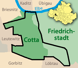 Map of Cotta, a subdistrict of Dresden.